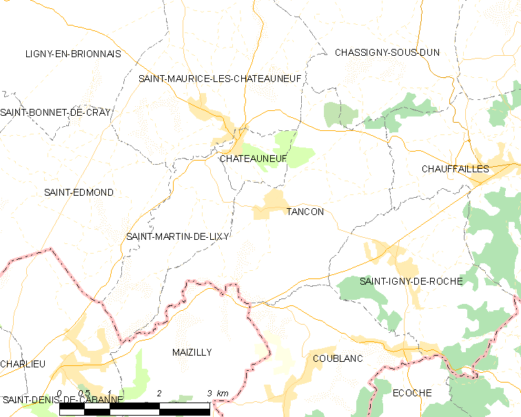 Map of French municipality